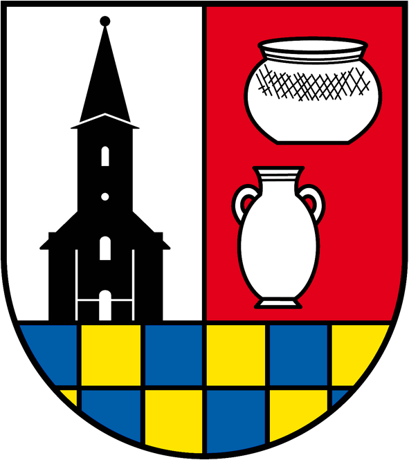 Coat of arms of Schlierschied